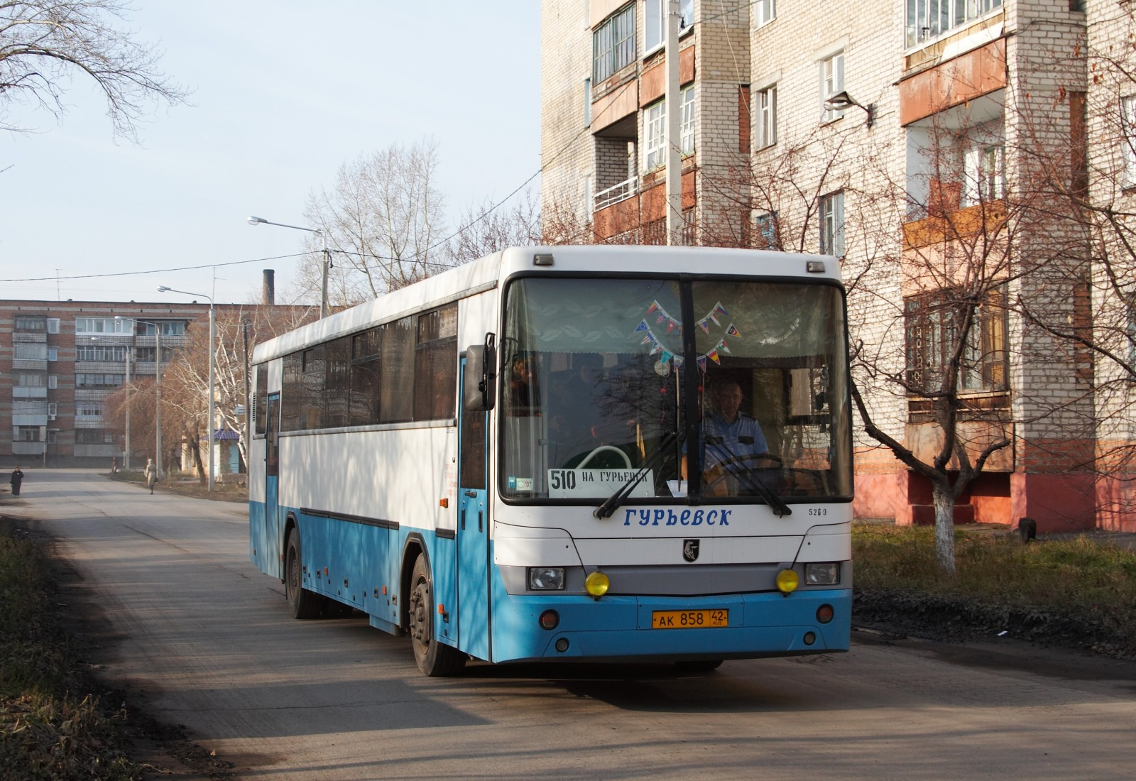 NefAZ 5299 intercity bus (reg. AK 858) in Belovo, Kemerovo Oblast (region), Russia.